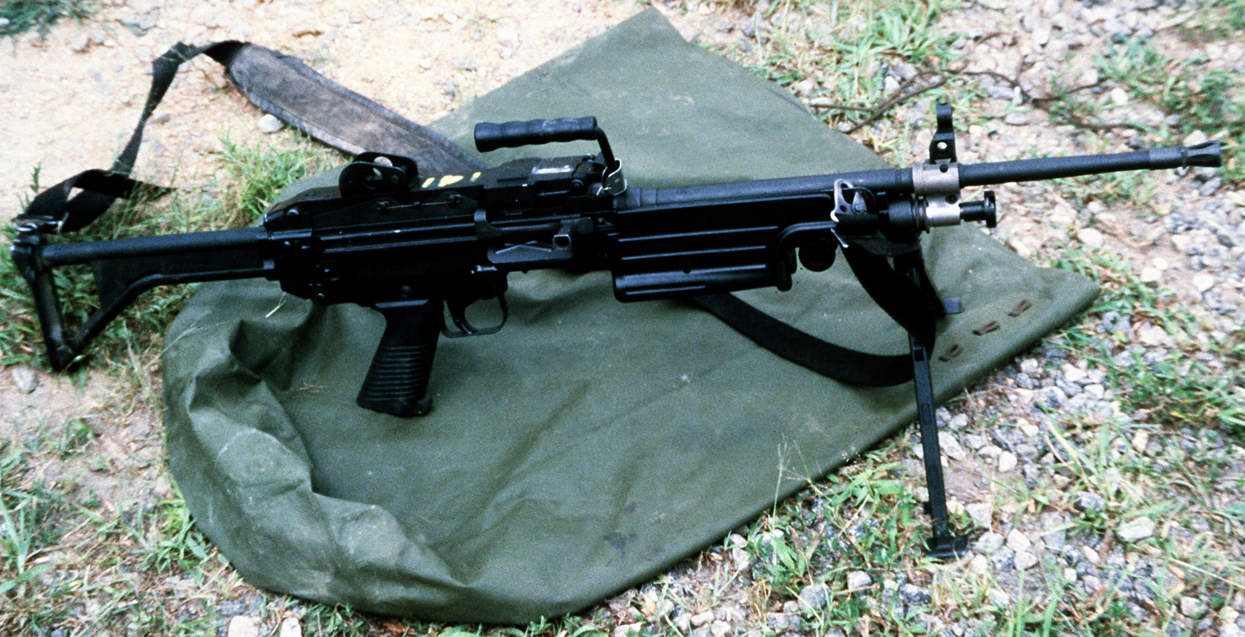 An M-249E1 squad automatic weapon.